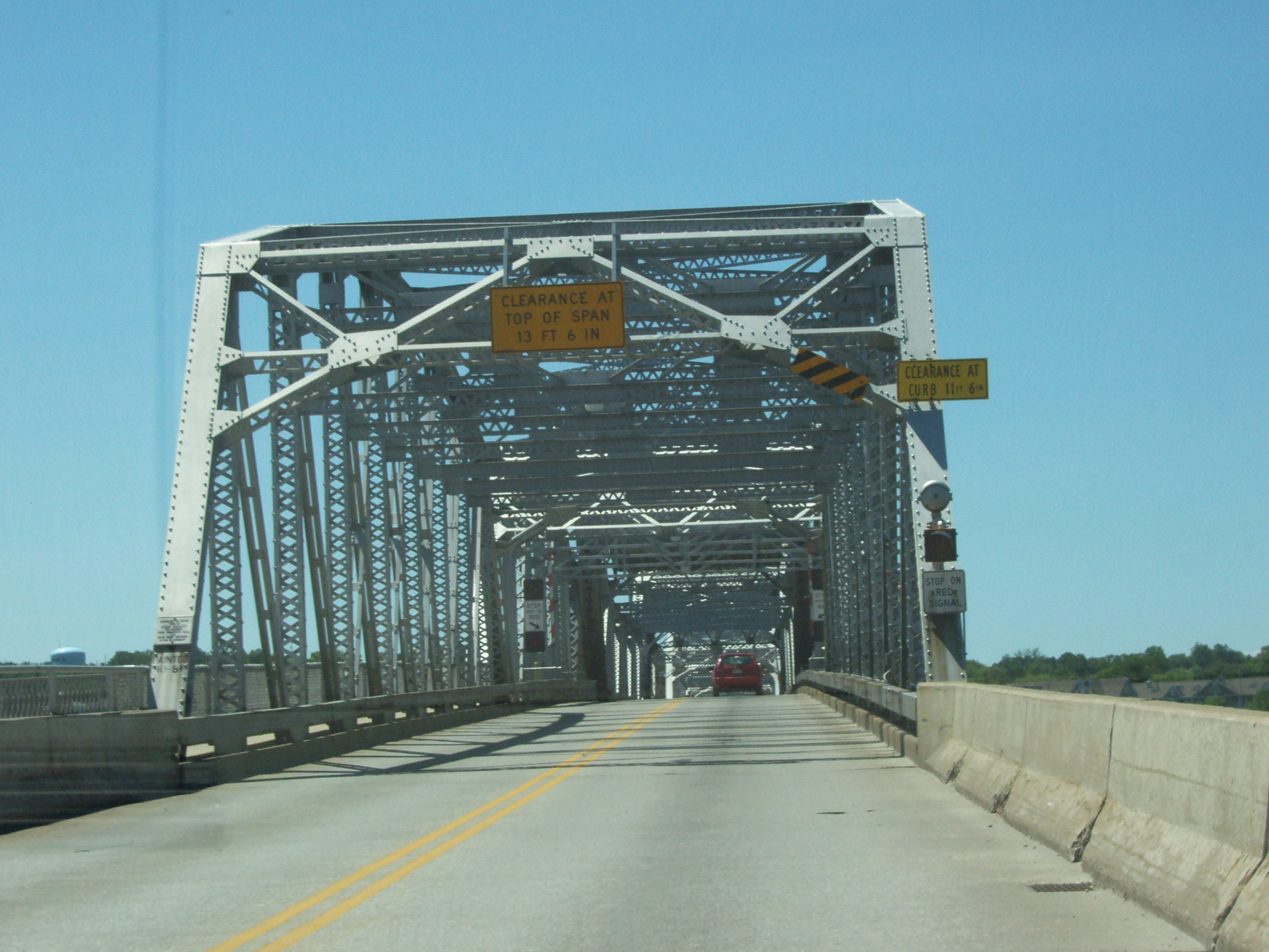 The Sturgeon Bay Bridge formerly on Wisconsin Highway 42 and Wisconsin Highway 57 in Sturgeon Bay, Wisconsin. The bridge is a registered historic place.